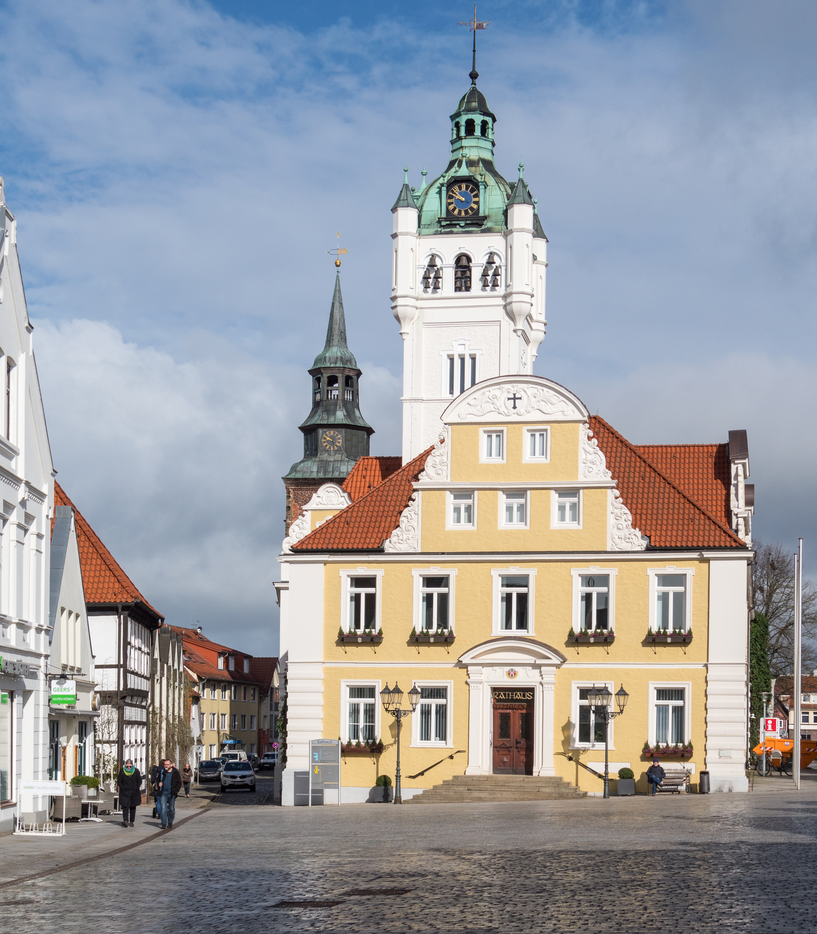 Town hall of Verden (Aller)